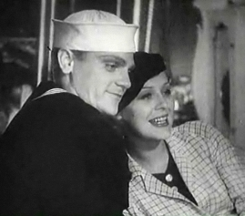 screenshot of James Cagney and Gloria Stuart from the film Here Comes the Navy